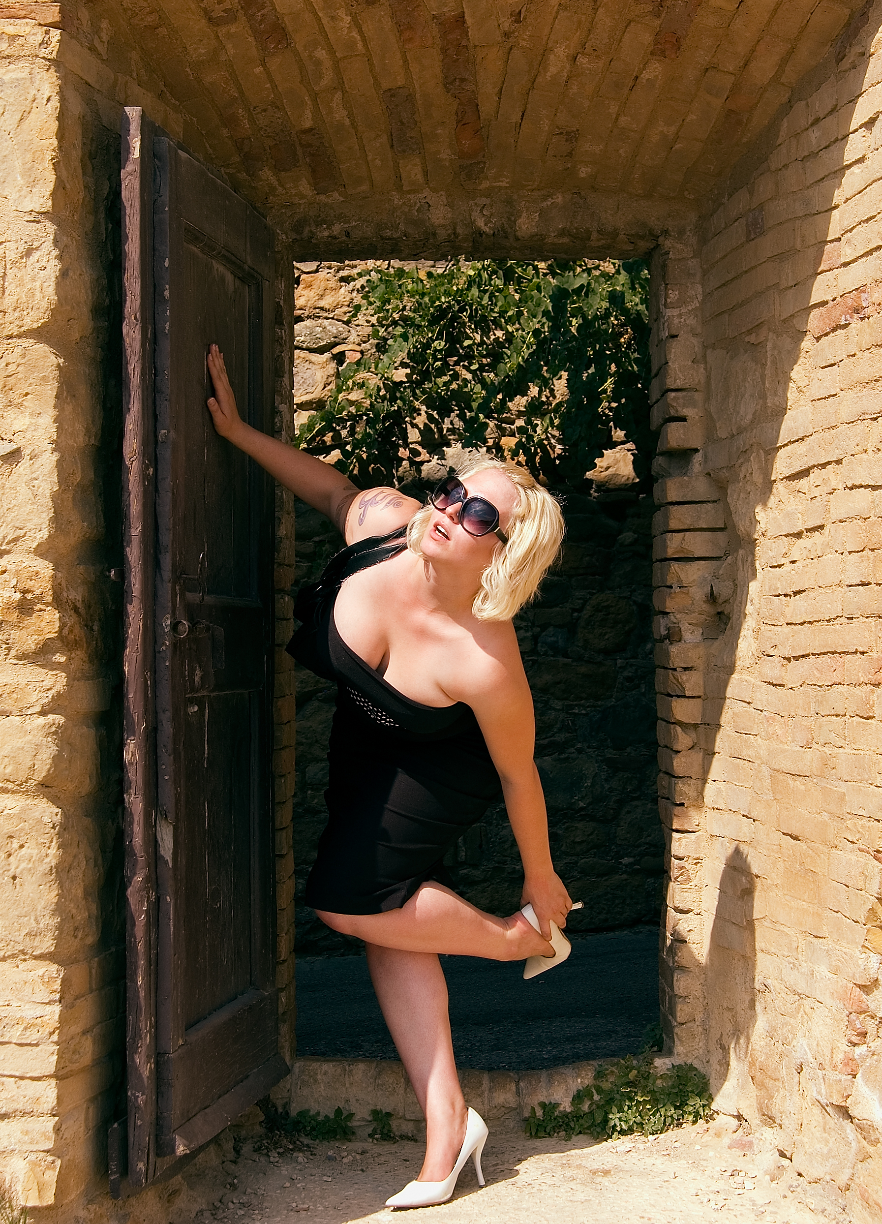 Alexandra Keenan-Krilevich (Blonde girl modeling in Tuscany).